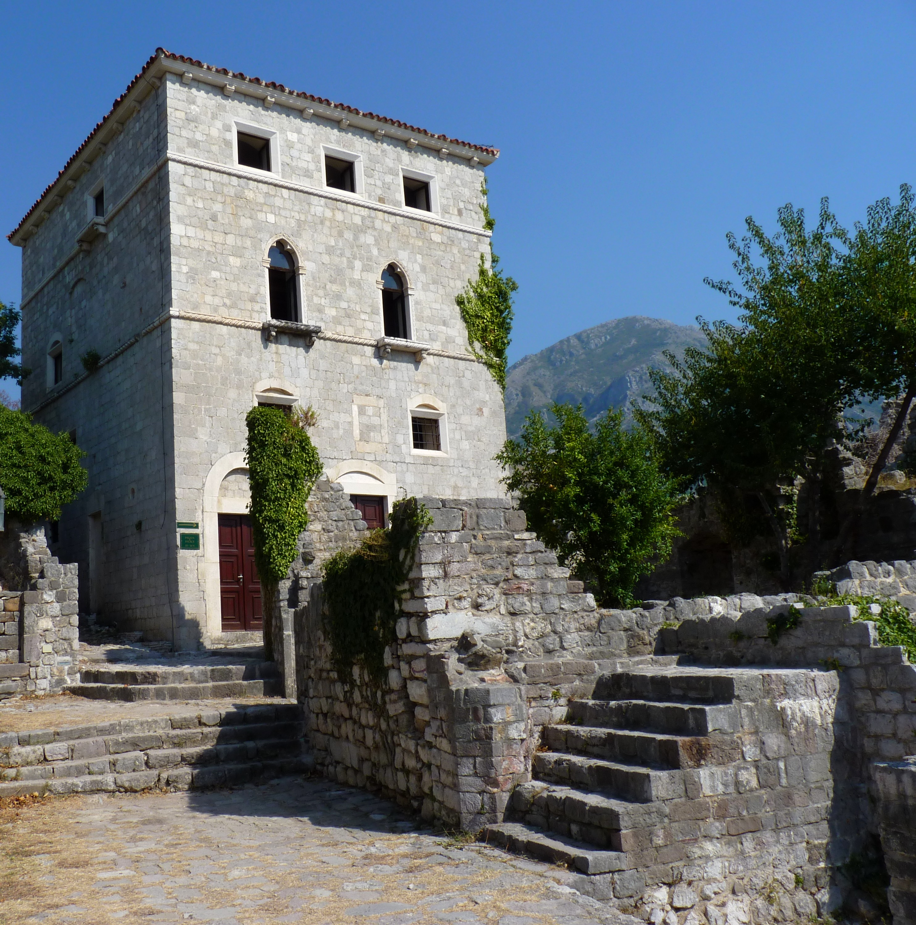 Stari Bar is a ruined city in Montenegro